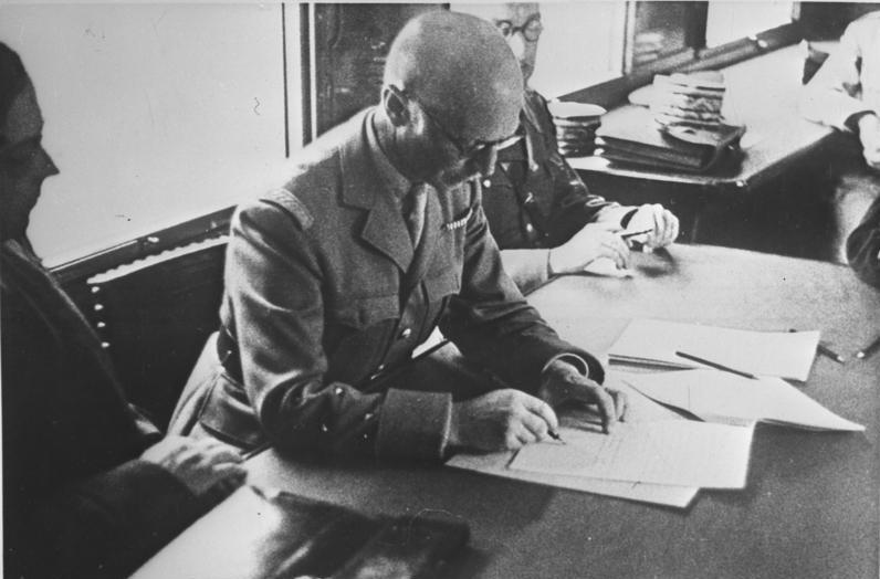 General Charles Huntziger (FR) signs the armistice in a rail car (the Wagon de l'Armistice) in Compiègne, on June 22nd, 1940, after the defeat of the French Armed Forces by the Germans. This is the same rail car where the November 11, 1918 armistice was signed twenty-two years before, after the defeat of the German Empire in the end of the First World War.